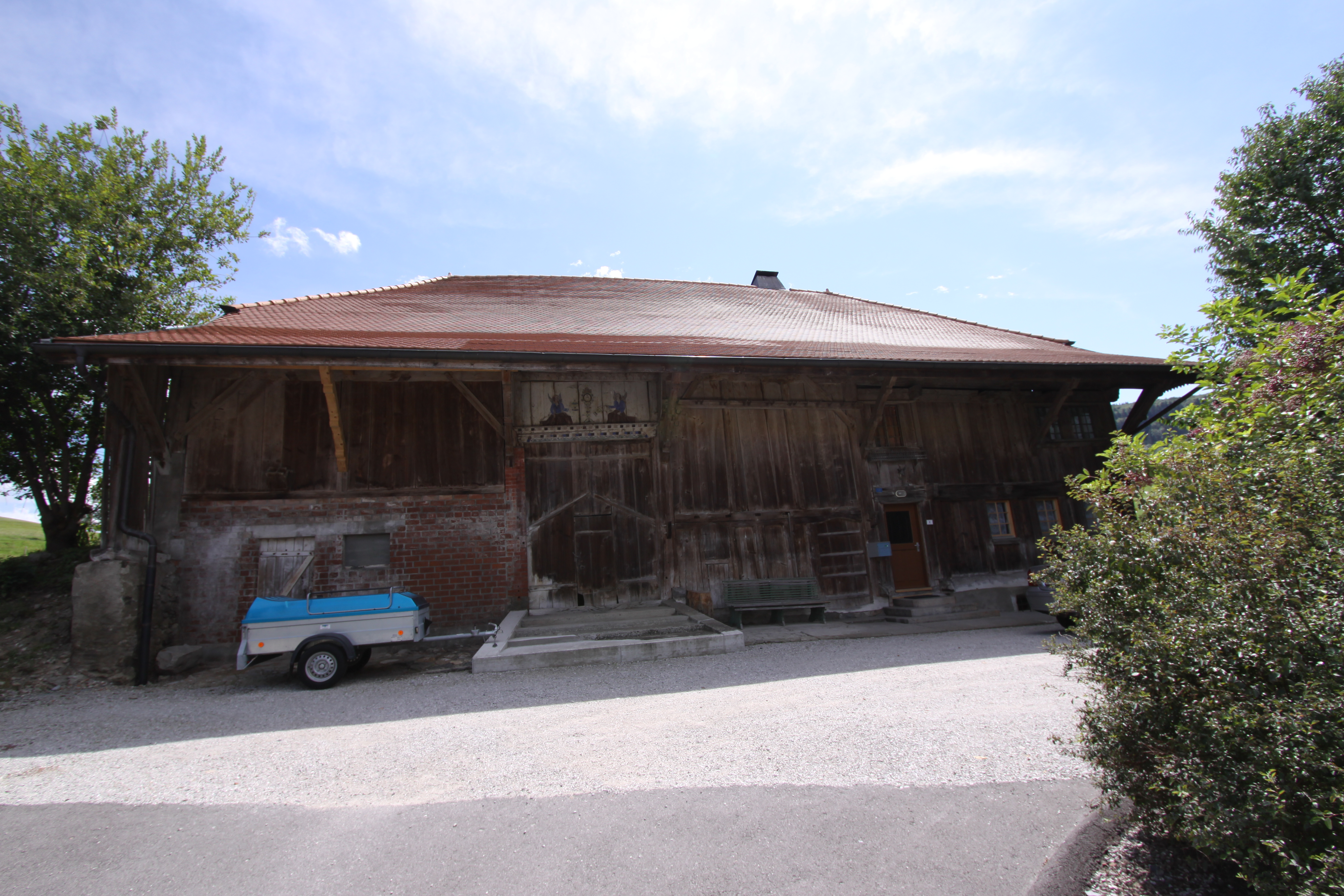 Farmhouse, Le Pré de la Maison 12, Treyvaux